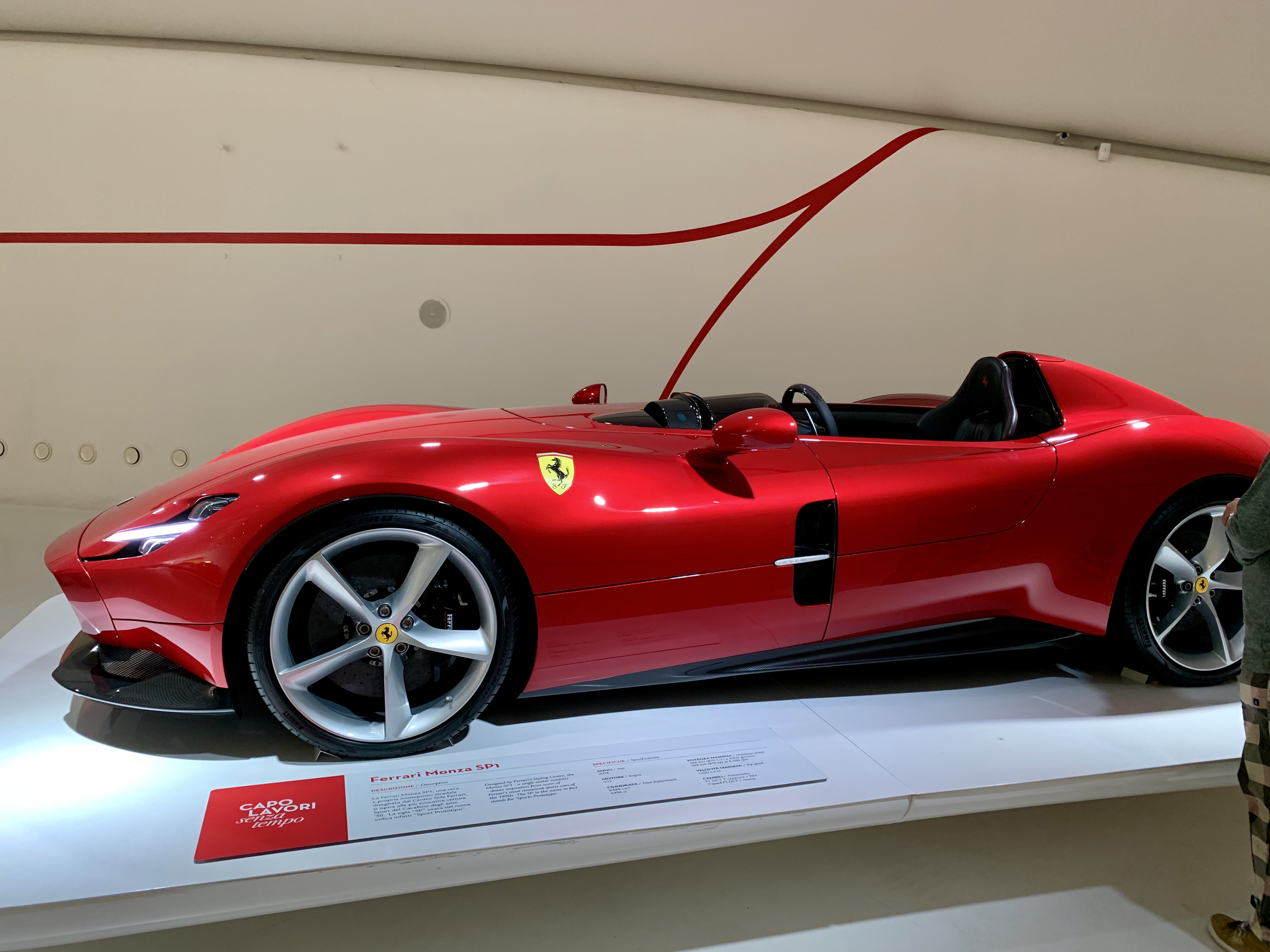 Ferrari Monza SP1 at the Museo Enzo Ferrari, Modena, Italy, 2019